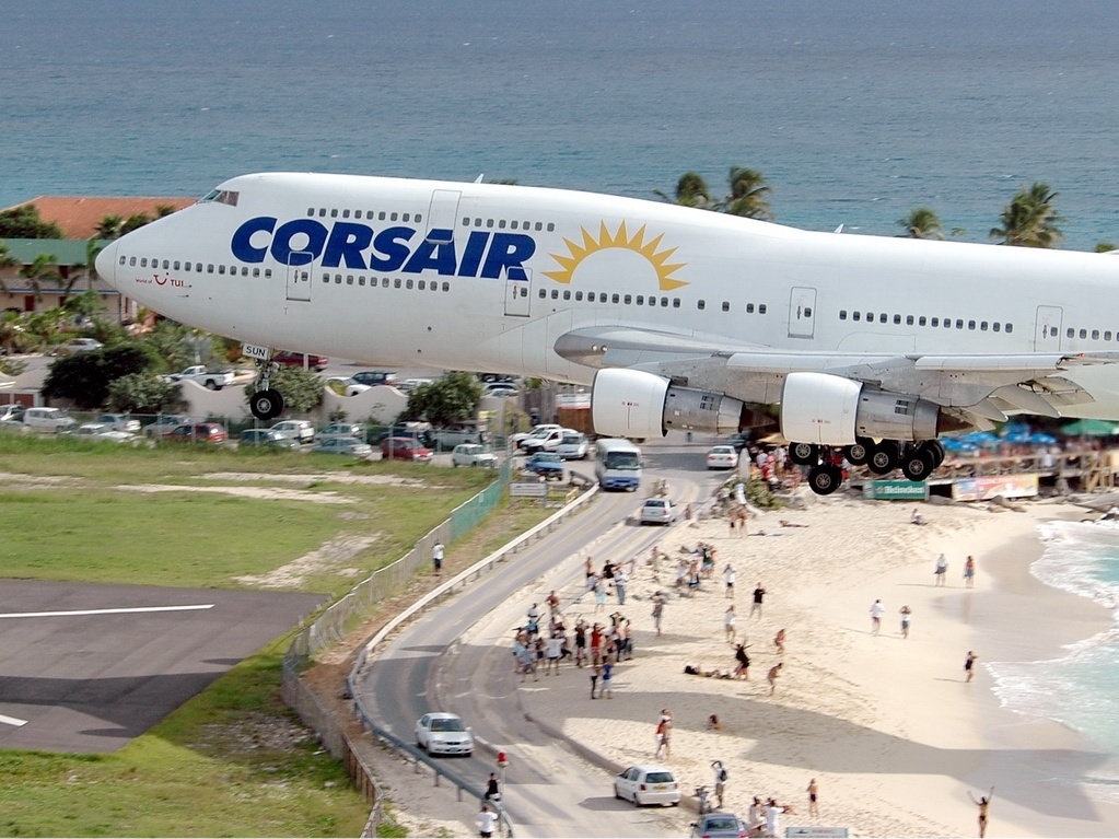 Corsair Boeing 747-312